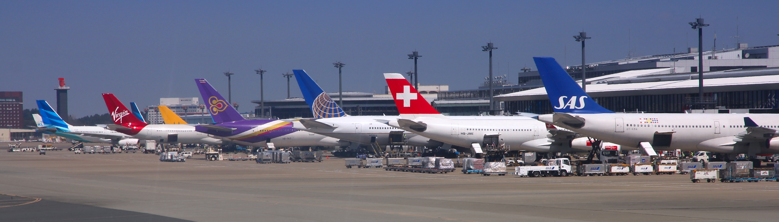 Many airlines together at Narita International Airport, Japan. SAS Scandinavian Airlines, Swiss International Air Lines, United Airlines, Thai Airways International, Virgin Atlantic.